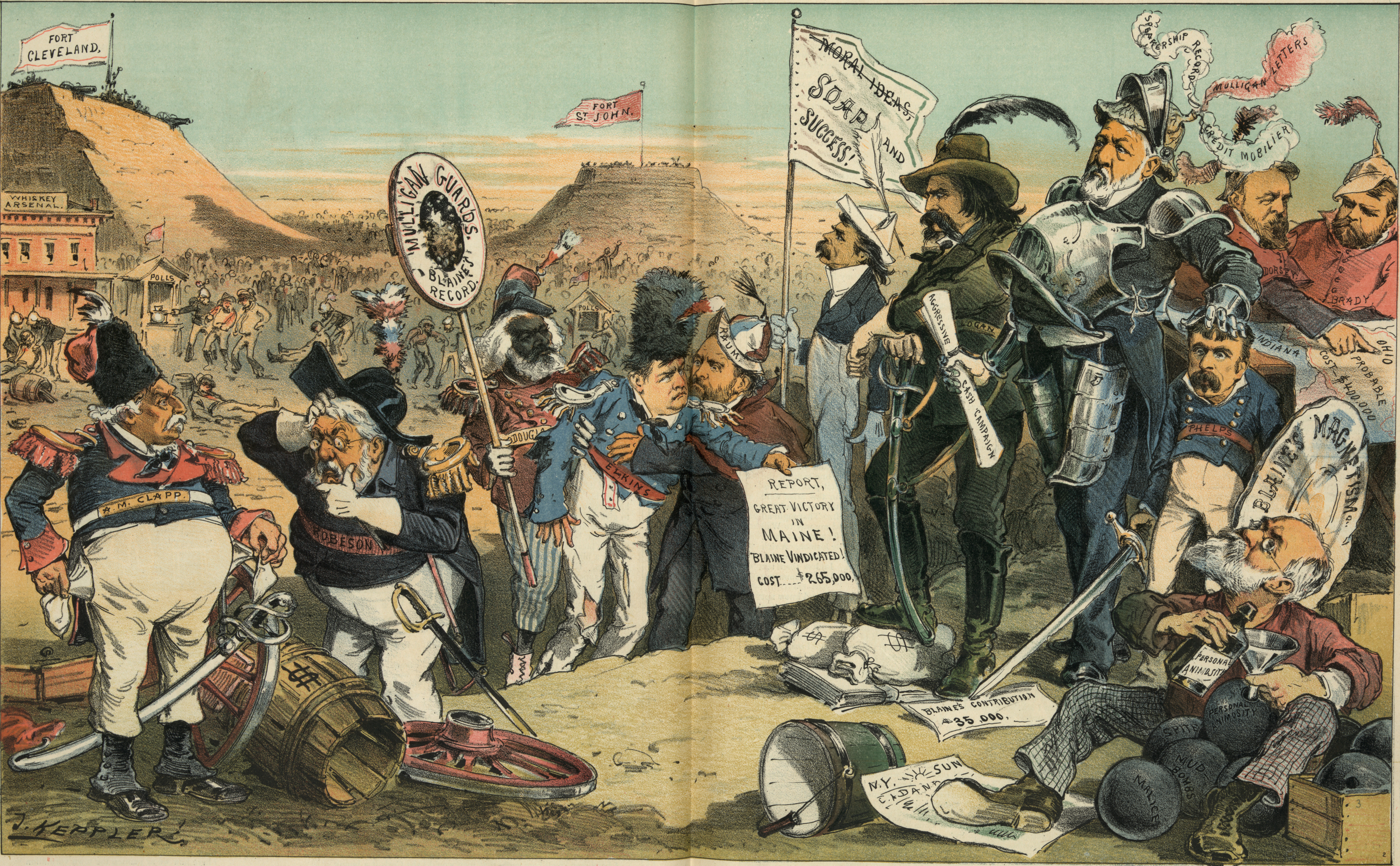 Title: The pyrrhic victory of the Mulligan guards in Maine Abstract: Illustration shows James G. Blaine dressed as a knight, the plumes of his helmet labeled "Speakership Record, Mulligan Letters, [and] Credit Mobilier", he holds papers labeled "Aggressive Cash Campaign", and rests his left hand on the head of W.W. Phelps who is holding a sword and a battered shield labeled "Blaines Magnetism". Whitelaw Reid, wearing a paper hat, carries a standard that states "Moral Ideas," (crossed out) "Soap and Success!" Stephen B. Elkins presents a "Report" to John A. Logan and Blaine that states "Great Victory in Maine! Blaine Vindicated! Cost $265,000". Charles A. Dana sits in the lower right corner pouring "Personal Animosity" into cannonballs labeled "Personal Animosity, Spite, Mud Bombs, [and] Malice". Frederick Douglass holds a sign labeled "Mulligan Guards Blaine's Record" that appears to have drawn considerable enemy fire. On the left, "A.M. Clapp" turns his empty pockets inside out and George M. Robeson looks at an empty cash barrel. In the background, there is action at the "Whiskey Arsenal, Fort Cleveland, Polls, [and] Fort St. John", and casualties on the battlefield. Physical description: 1 print : chromolithograph. Notes: Illus. from Puck, v. 16, no. 393, (1884 September 17), centerfold.; Caption: "Another victory like this and our money's gone!"; J. Keppler.; Copyright 1884 by Keppler & Schwarzmann.; Title from item.